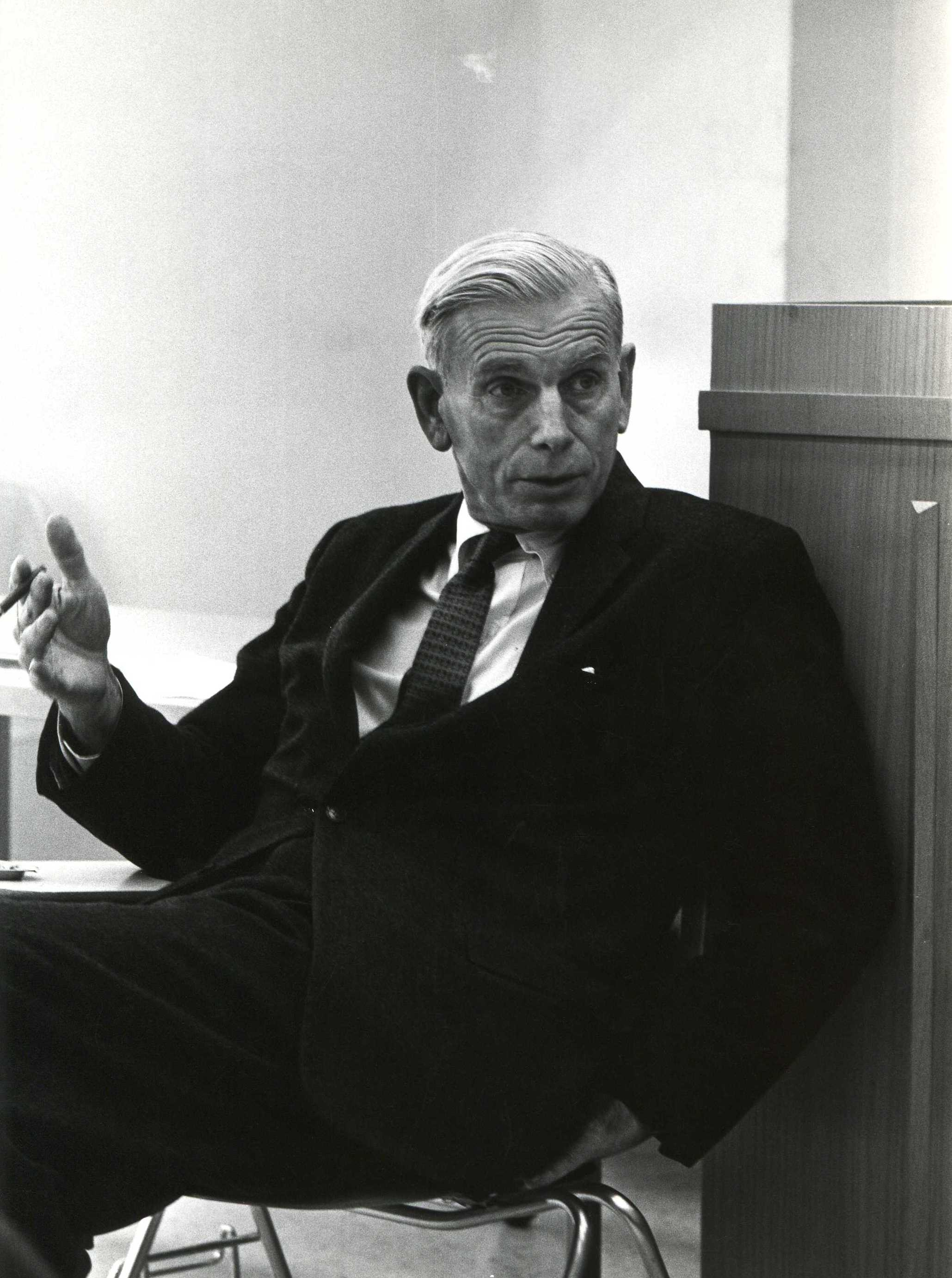 Charles Siepman